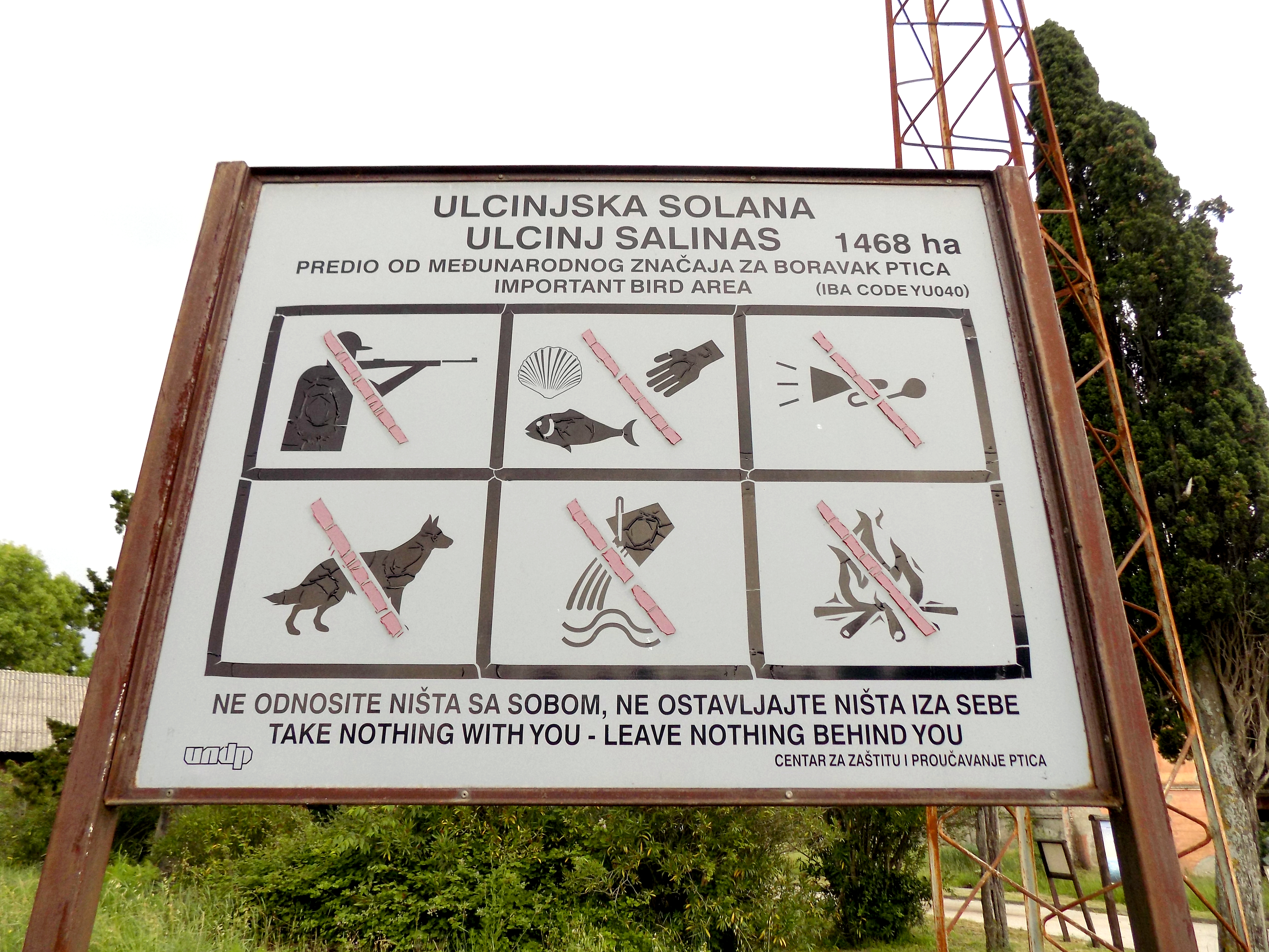 Ulcinj Salinas, important bird area - info board at the entrance to the salt works area